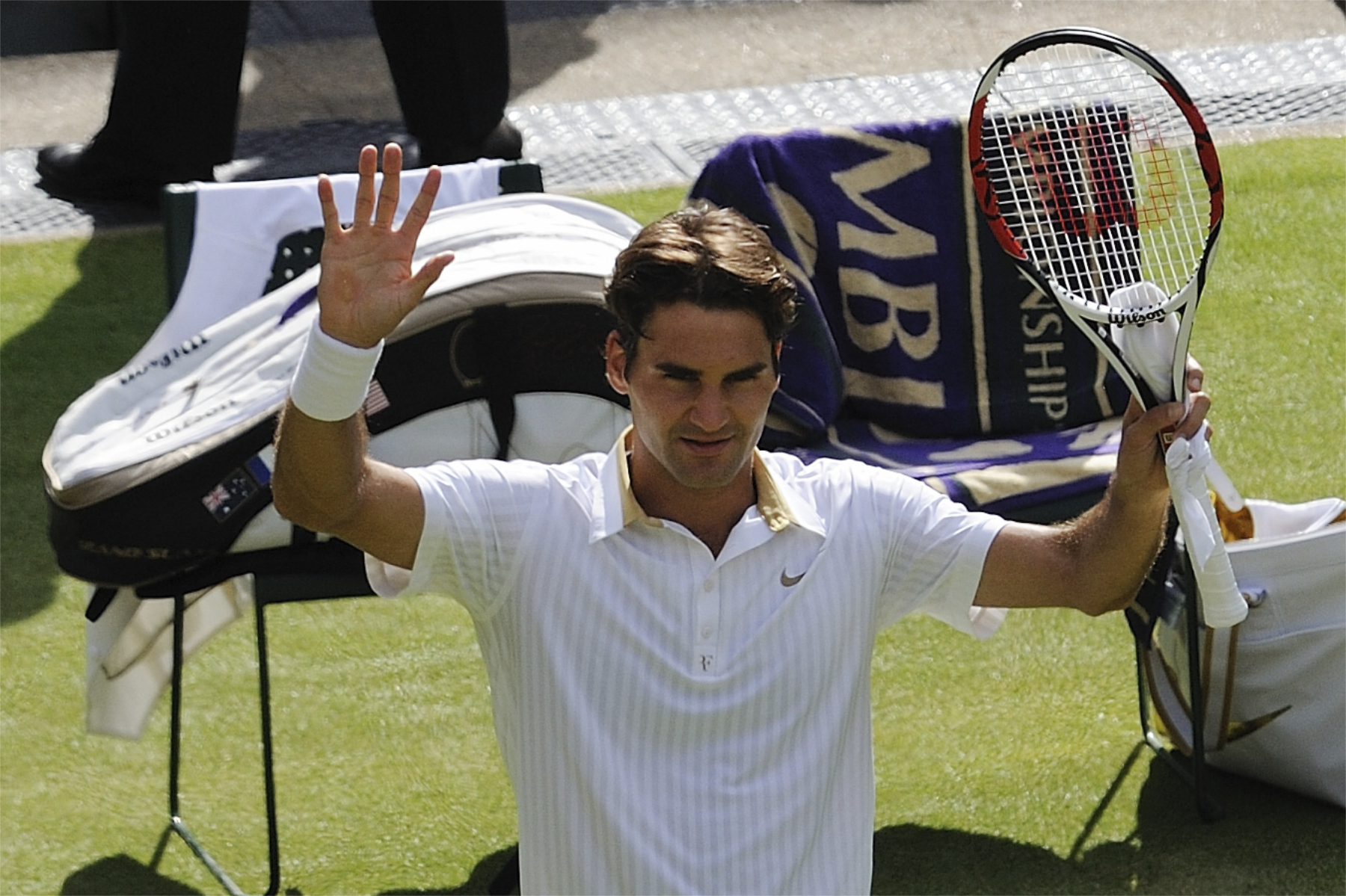 Roger Federer after his match against Guillermo García-López in the 2009 Wimbledon Championships second round